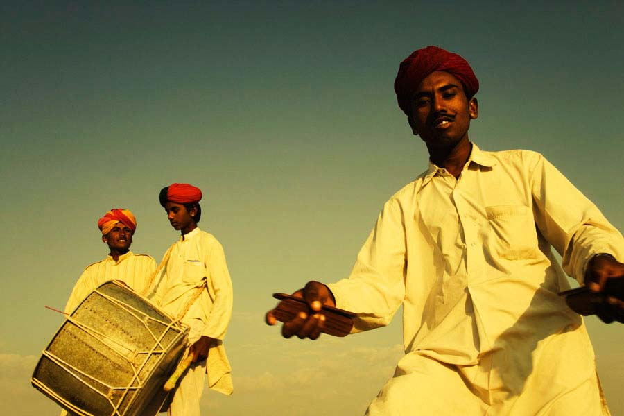 Three men playing Khartal & Dhol (musical instruments), Jaisalmer, Rajasthan, India